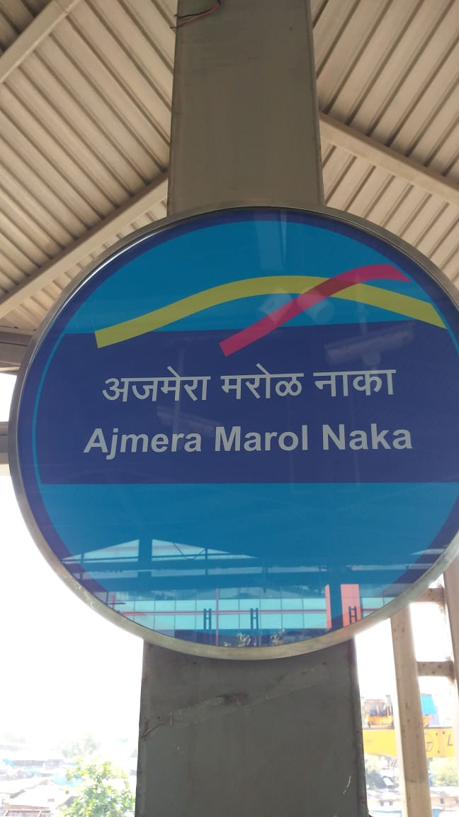 Ajmera Marol Naka metro station - Platform board